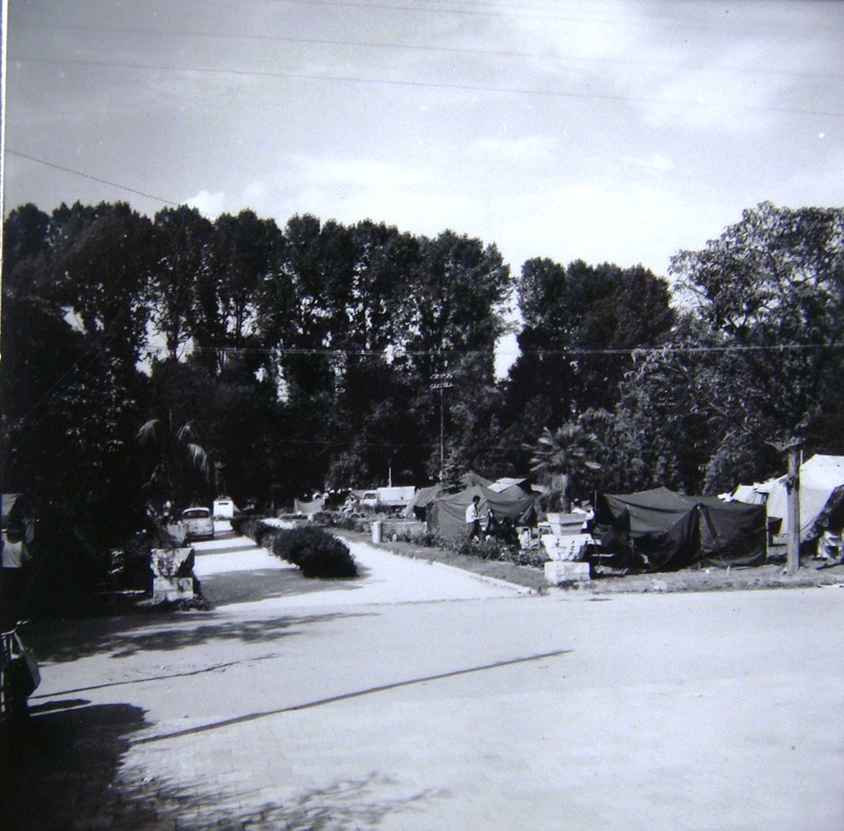 1963 Skopje earthquake: The entrance of the City park with tents This media file is produced by Wikipedian in Residence in Category:Wikipedian in Residence at DARM in 2016.